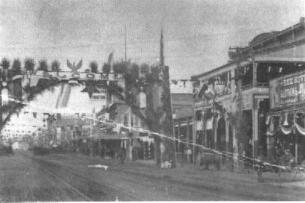 The first train arrives in Phoenix in 1896.